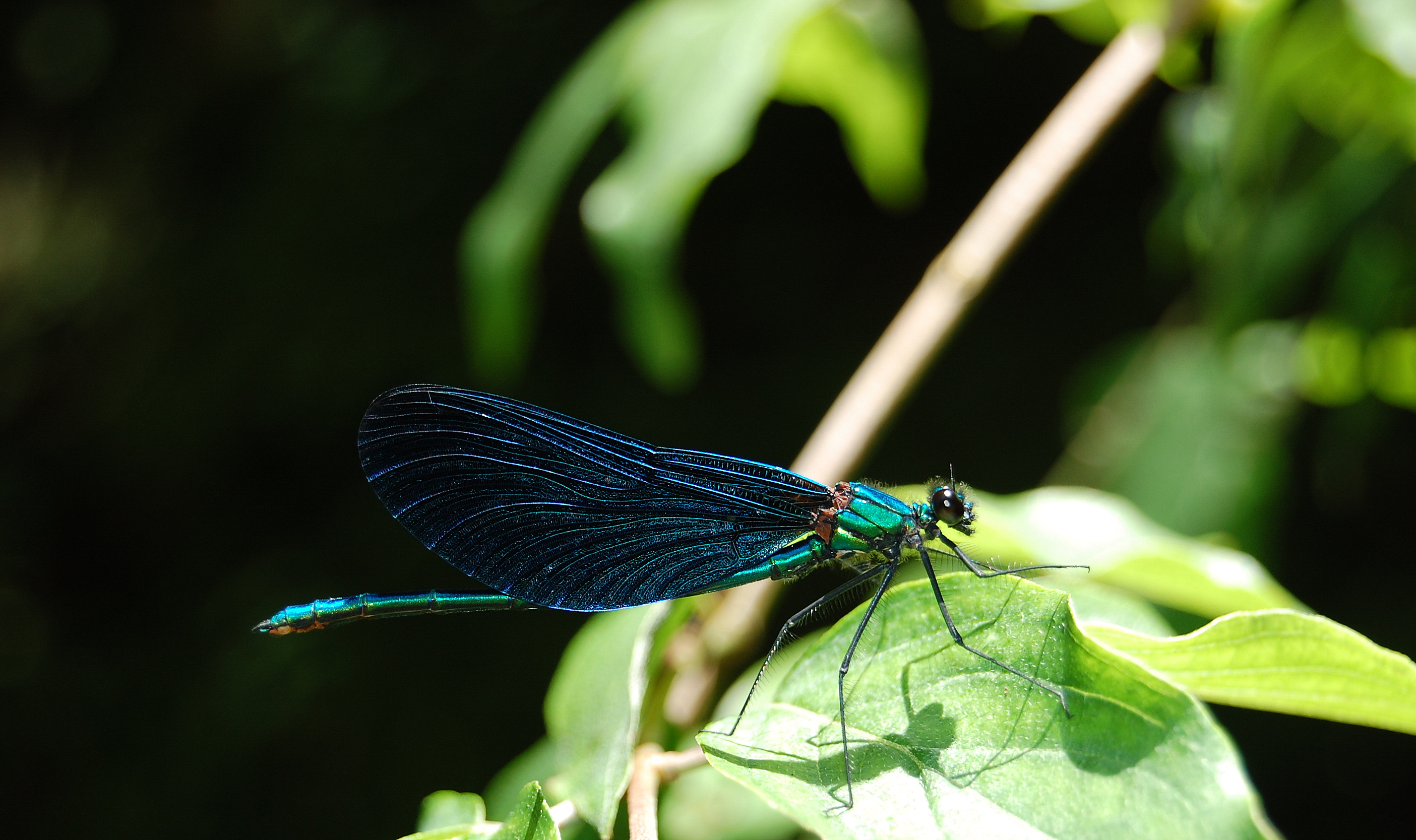 Blue dash dragonfly in Iški Vintgar, Slovenia